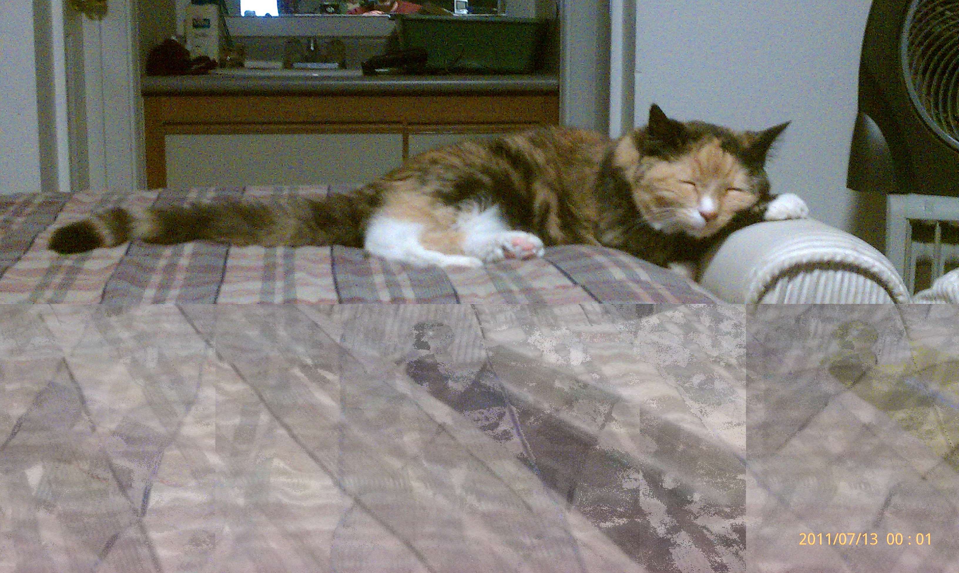 A complicated grid pattern is insufficiently processed by an HTC EVO camera, with interesting results.